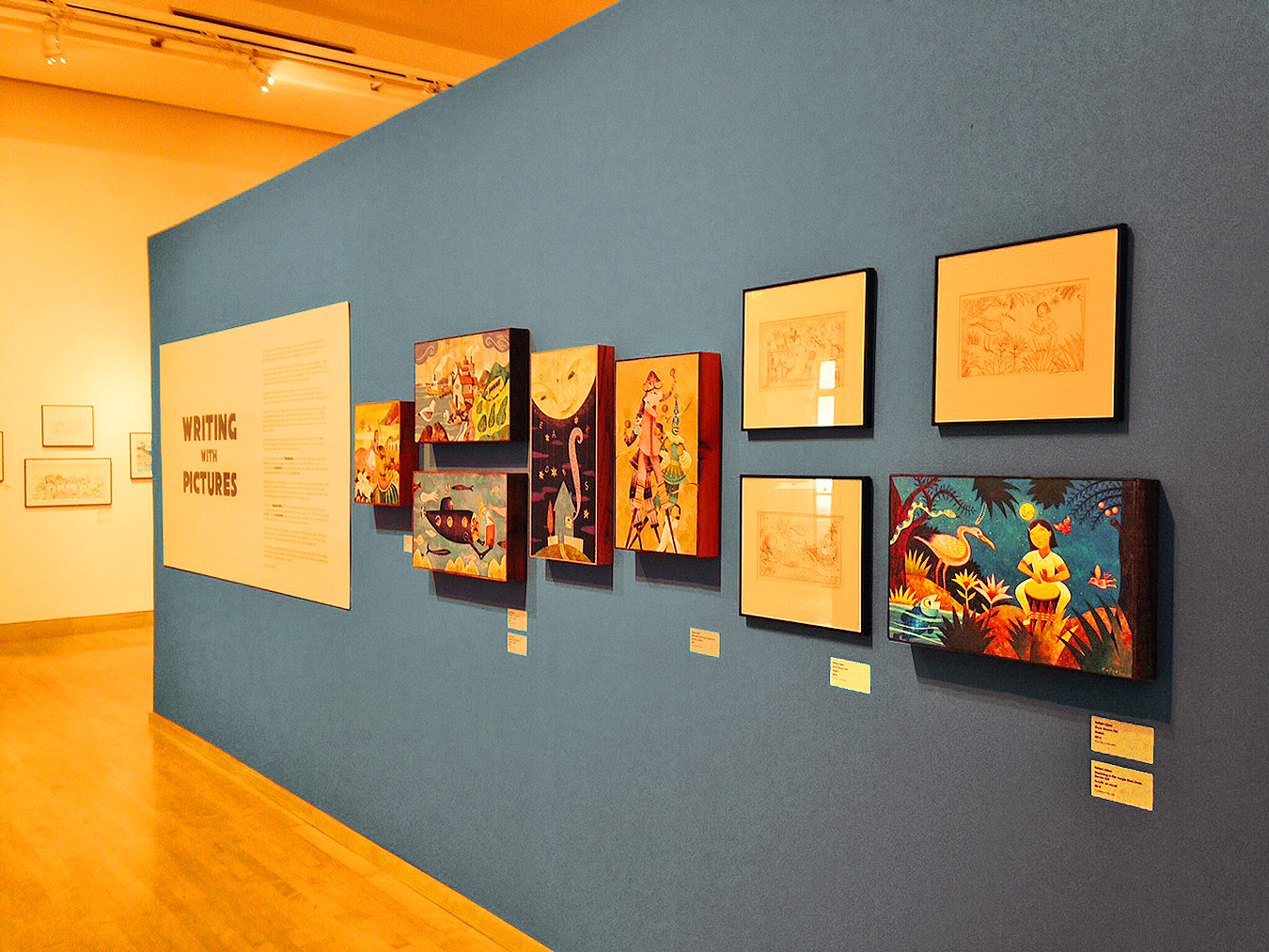 Rafael Lopez artwork at the Writing with Pictures Exhibition at California Center for the Arts.